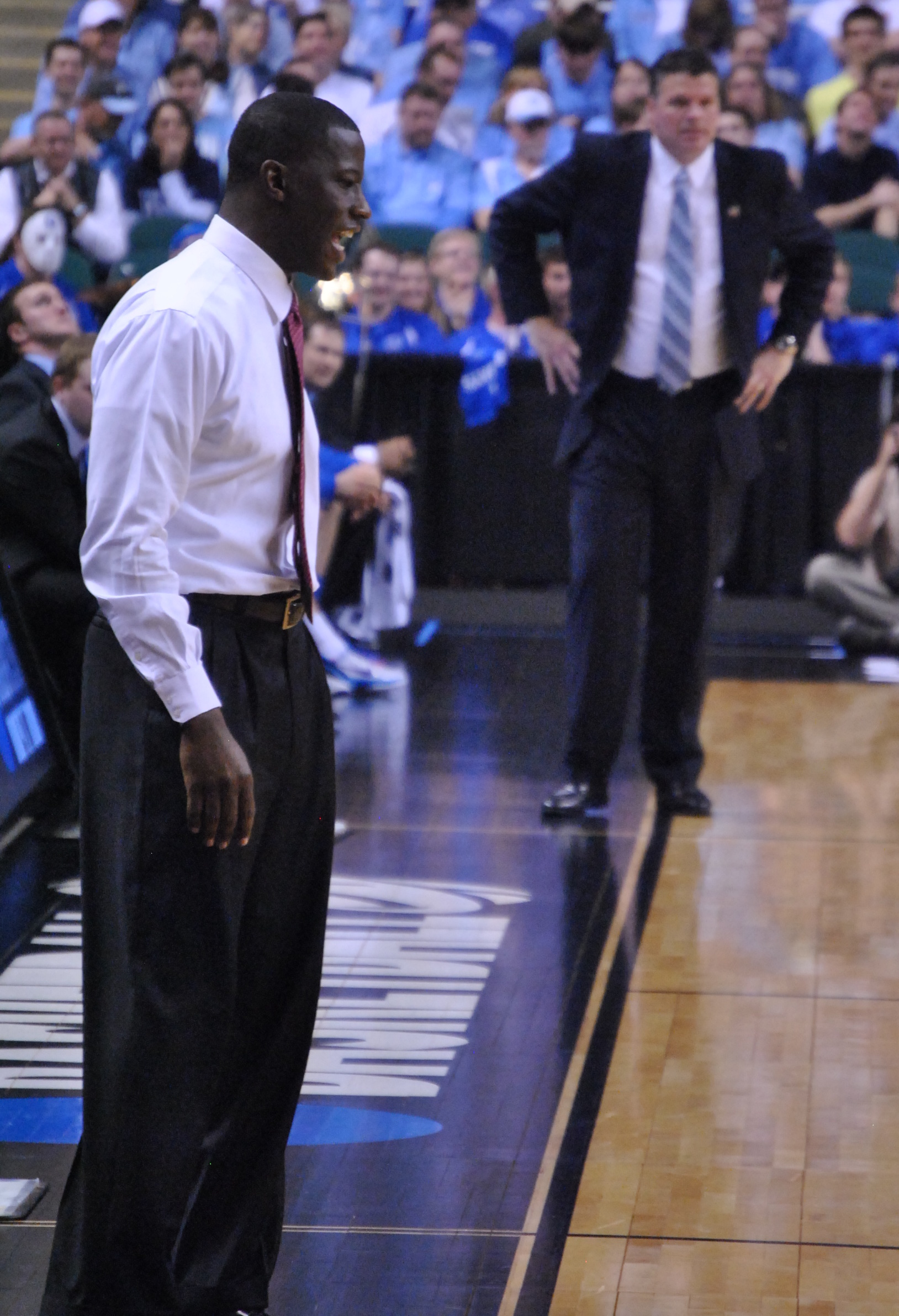 Coaches Anthony Grant and Greg McDermott watch their teams from the bench in Greensboro